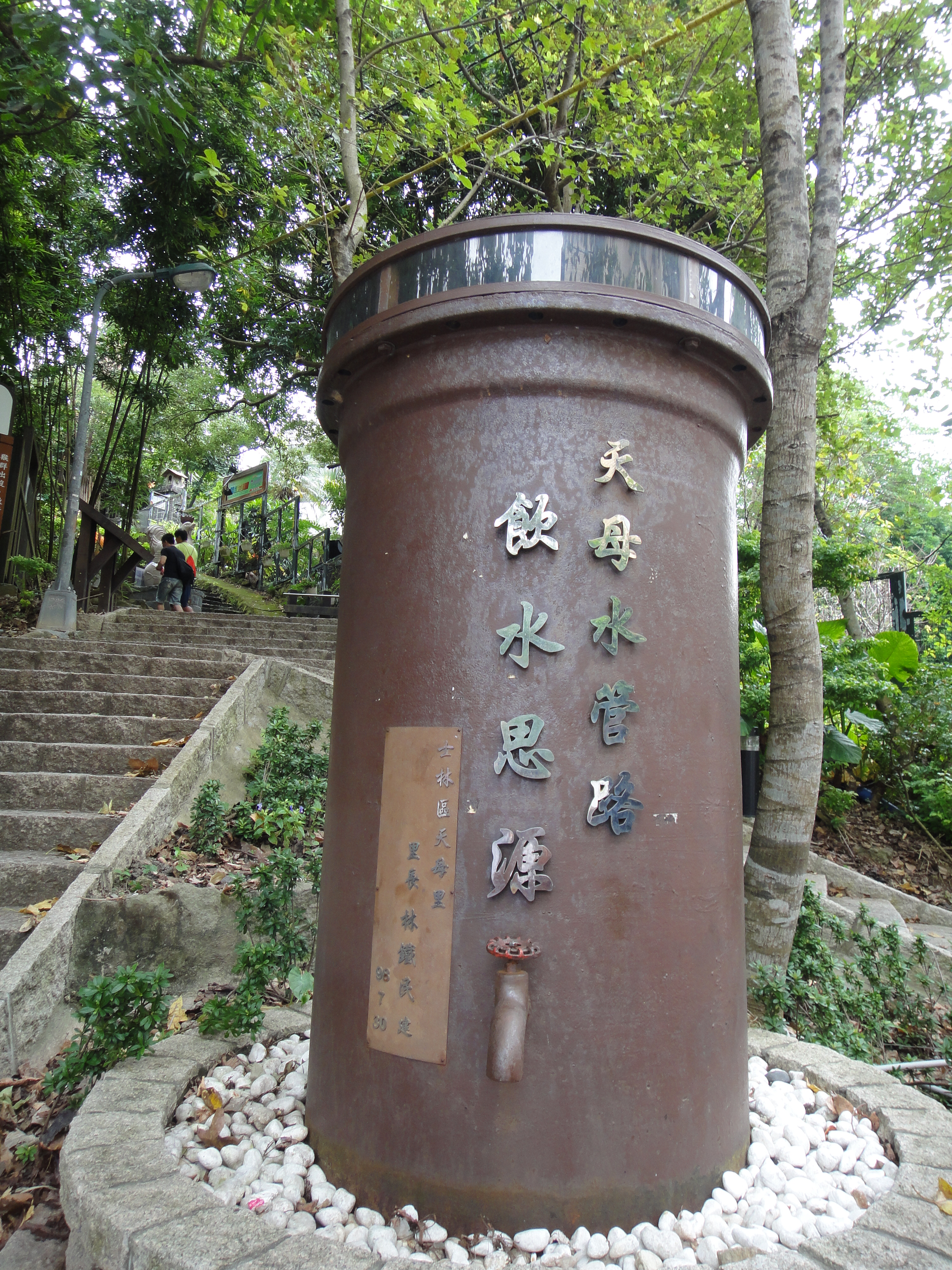 Tianmu Waterpipe Walkroad, Taipei. An walkroad located in Tianmu, northern Taipei City (Shilin Dist.), constructed in Japanese Government Age of Taiwan History.